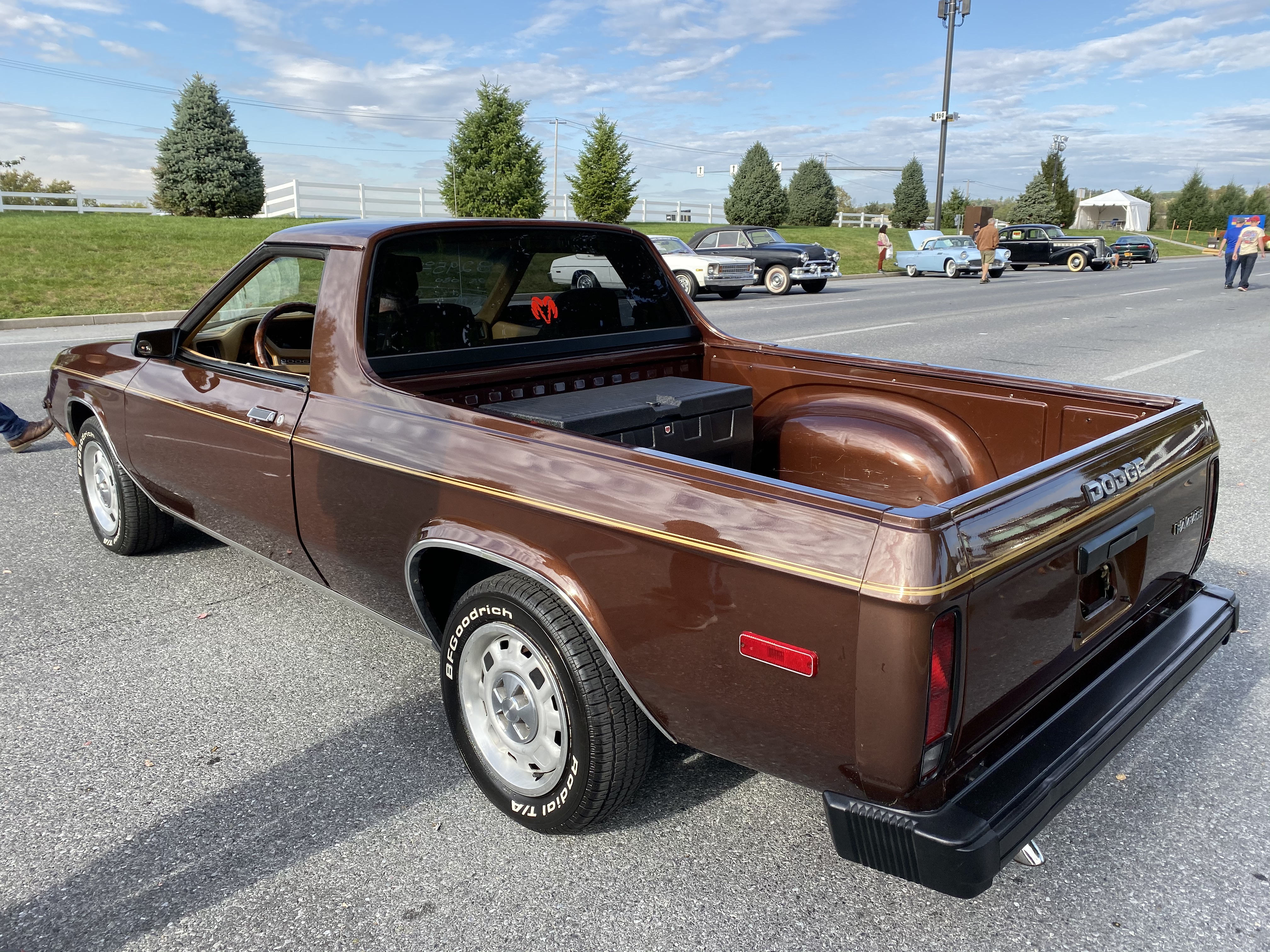 1982 Doge Rampage pickup, a subcompact, unibody coupe utility based on Chrysler's L platform. Picture taken of cars for sale during the Antique Automobile Club of America (AACA) 2019 Hershey meet that is held every October in Pennsylvania.